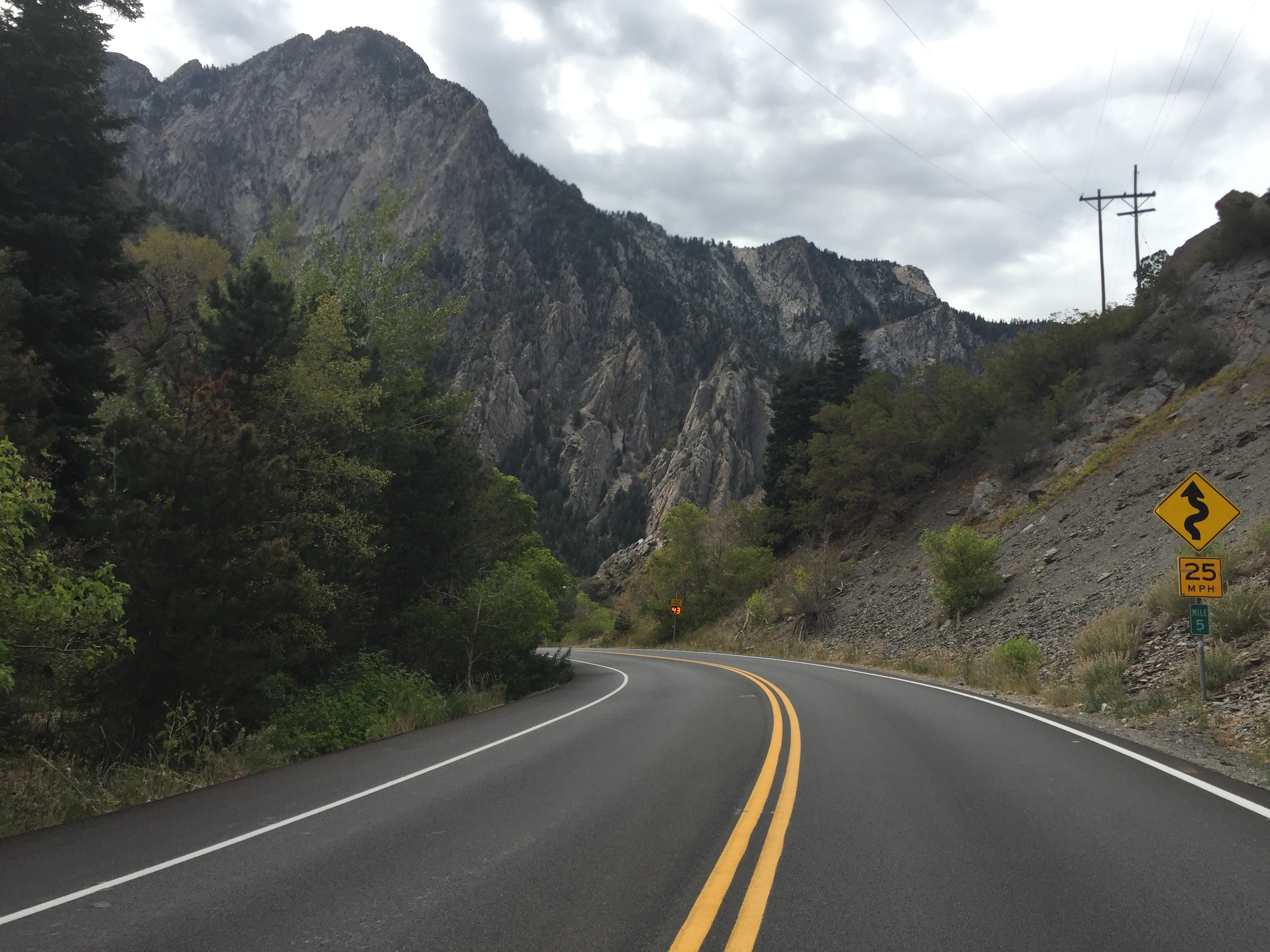 View west along Big Cottonwood Canyon Road (Utah State Route 190) about 5.0 miles east of Interstate 215 in Salt Lake County, Utah